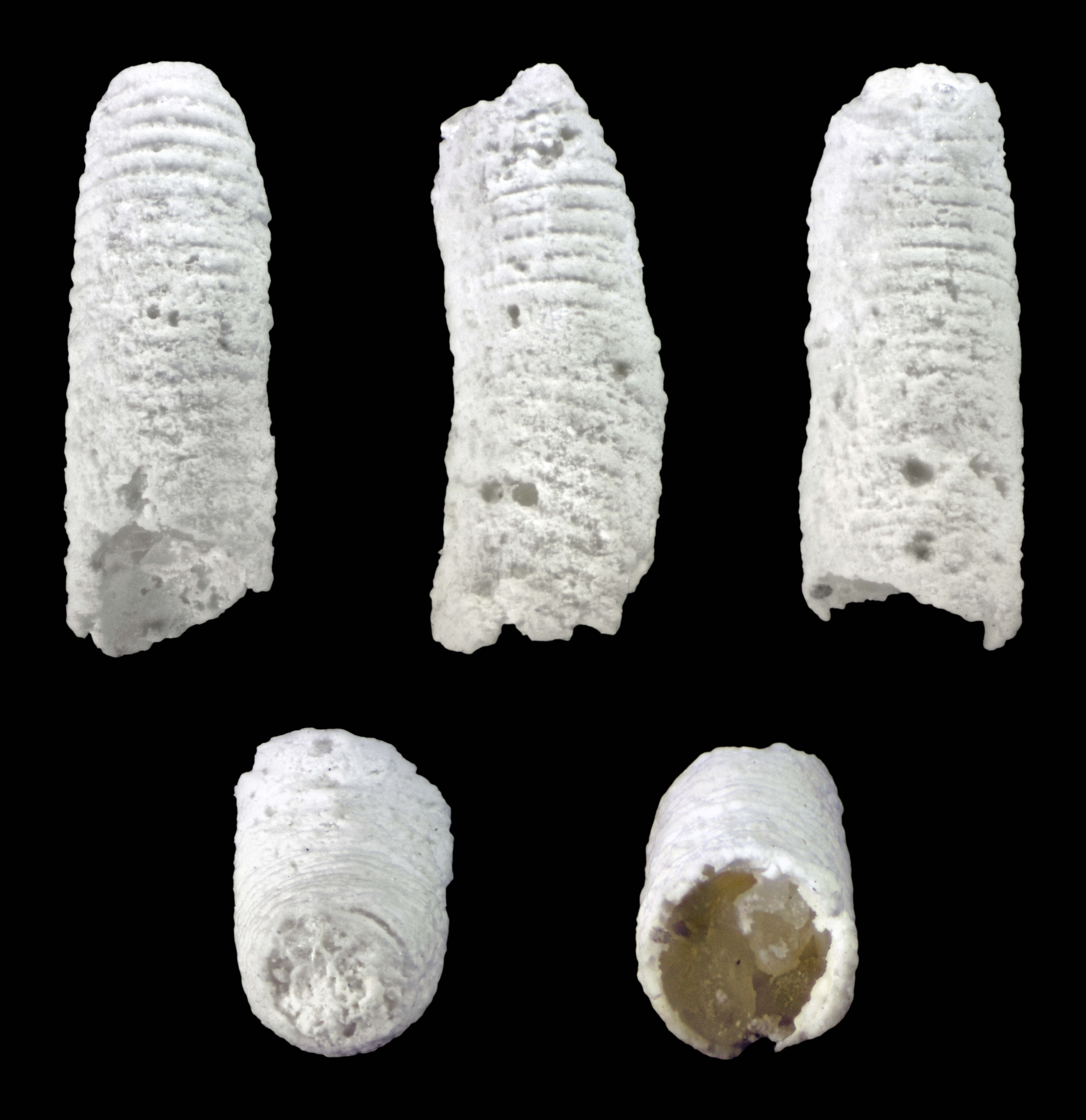 Caecum cinctum Olsson & Harbison, 1953; Length 0.24 cm; Tertiary, Pliocene, LaBelle, Florida, USA; Shell of own collection, therefore not geocoded.